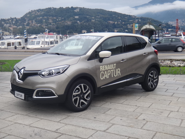 Smack bang, right out the front of our hotel in Como, the local Renault dealership had a new Clio and Captur on display, so straight down I went and checked them both out. Loving the look of the Captur! These will give another boost to Renault sales in Australia, once they're released here in early 2014. Saw a good number of them on the roads in Italy.